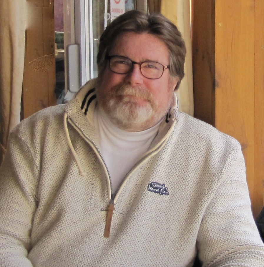 Author Photo:Chuck Pfarrer